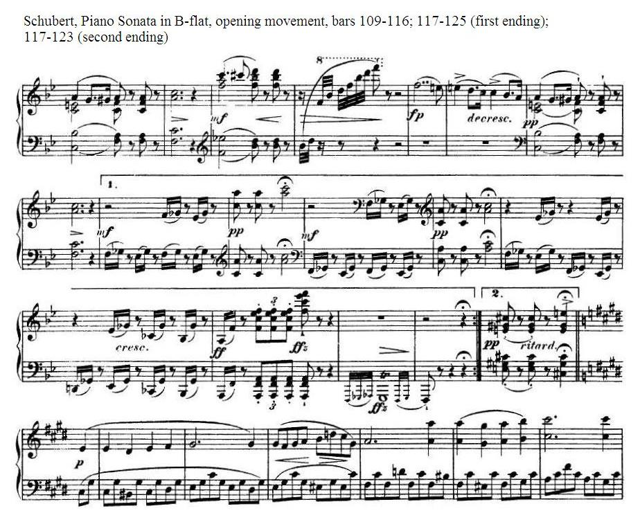 Bars 109-125 in Schubert's B-flat Piano Sonata.